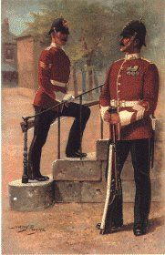 Illustration of soldiers of the Manchester Regiment in the full dress of 1914.